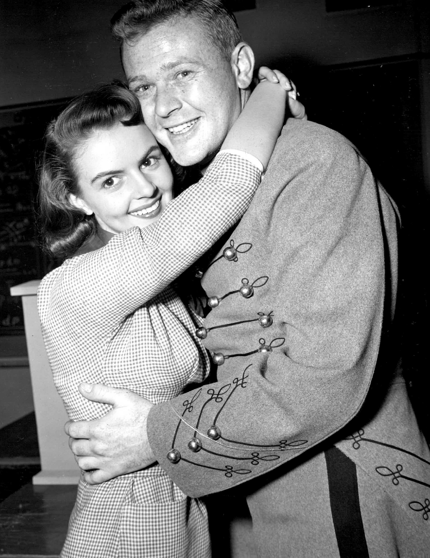 Photo of Martin Milner and Carolyn Craig from the premiere of the anthology series West Point, aka The West Point Story. This is from the premiere episode "The Mystery of Cadet Layton", Oct. 5, 1956. She plays a character named Judy Miller. He plays Cadet Jonathan B. Layton.